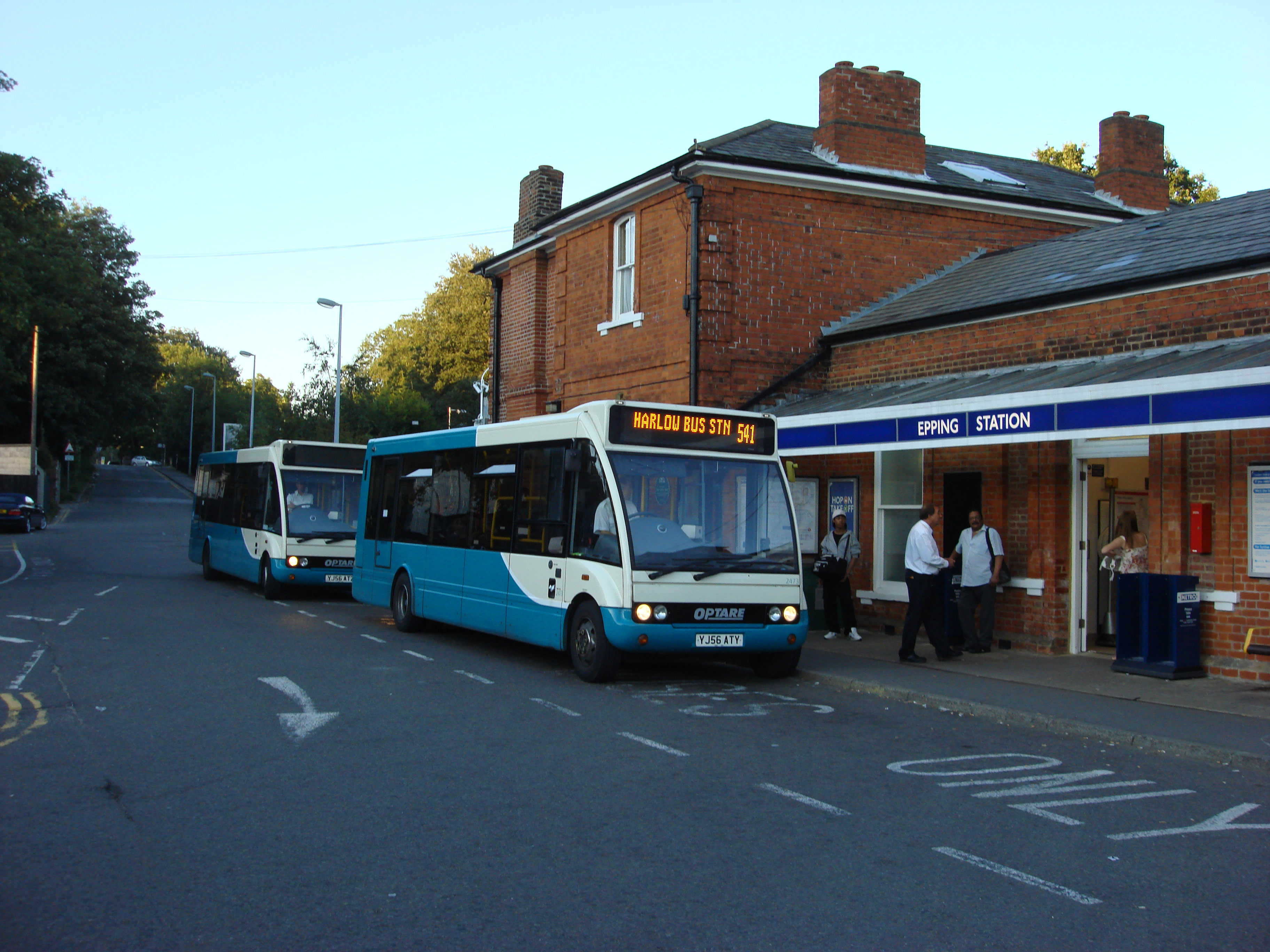 Two Optare Solos run by Arriva Shires & Essex, their 2473 and 2474 (YJ56 ATY and YJ56 ATZ) at Epping tube station.